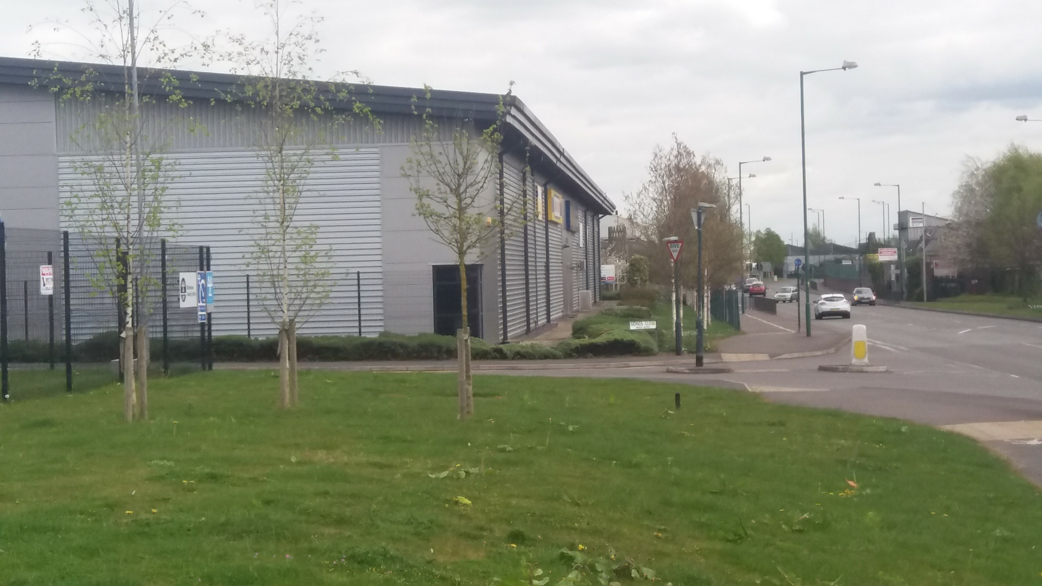 My own photo.